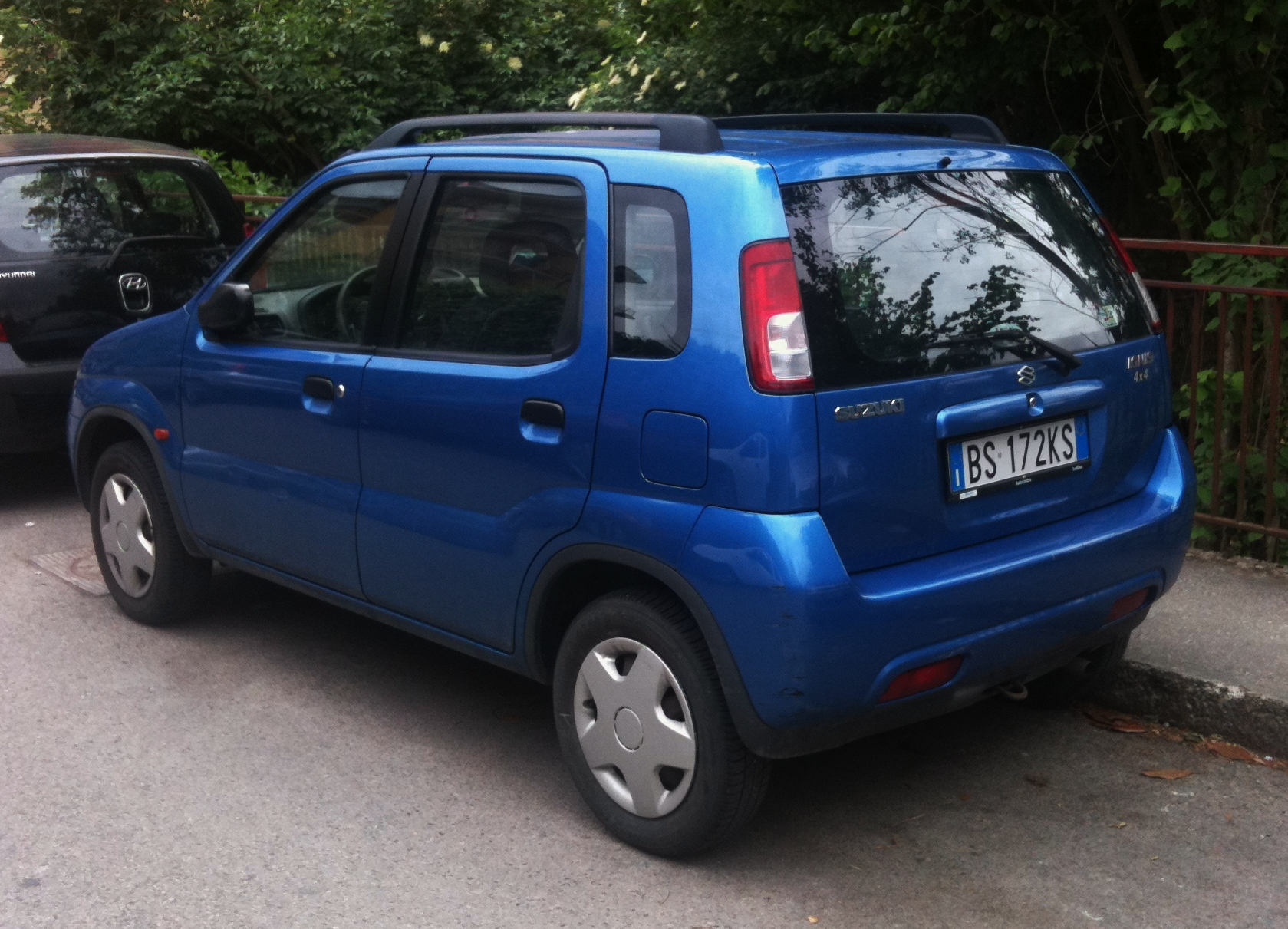 Suzuki Ignis in Avellino